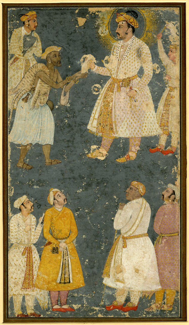 Painting. Portrait. Emperor Jahangir receiving a petition from a fakir. On paper.